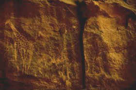 Copied by self author